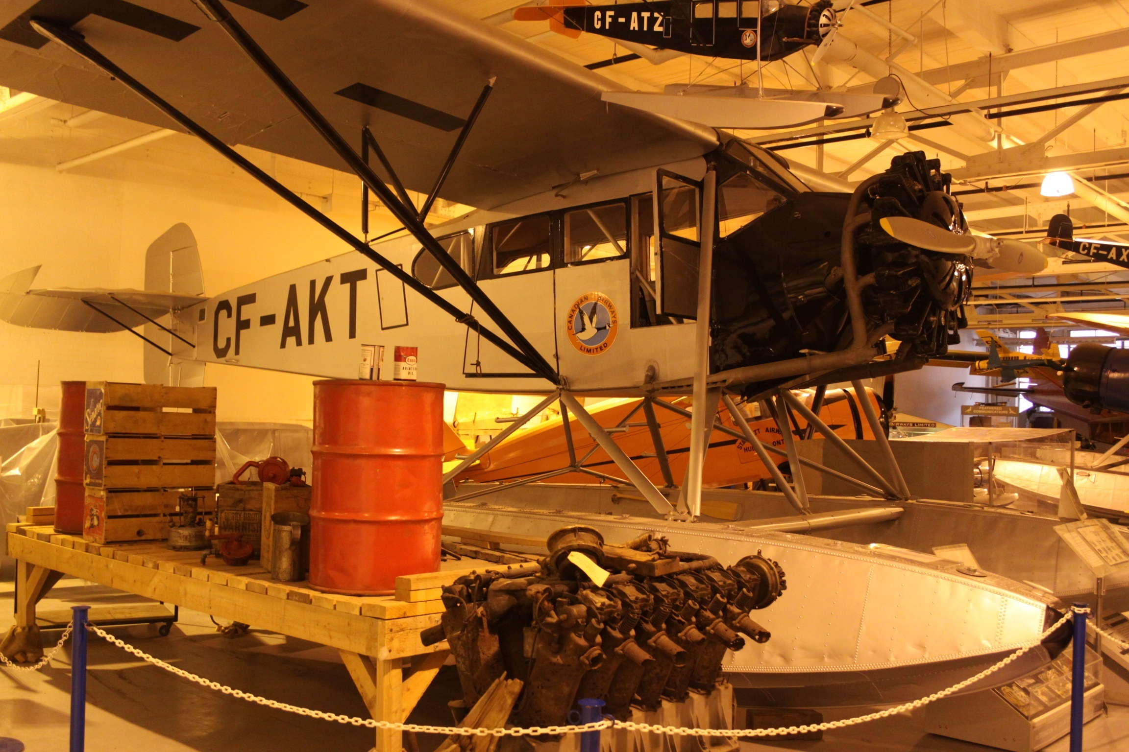 At Winnipeg James Armstrong Richardson International